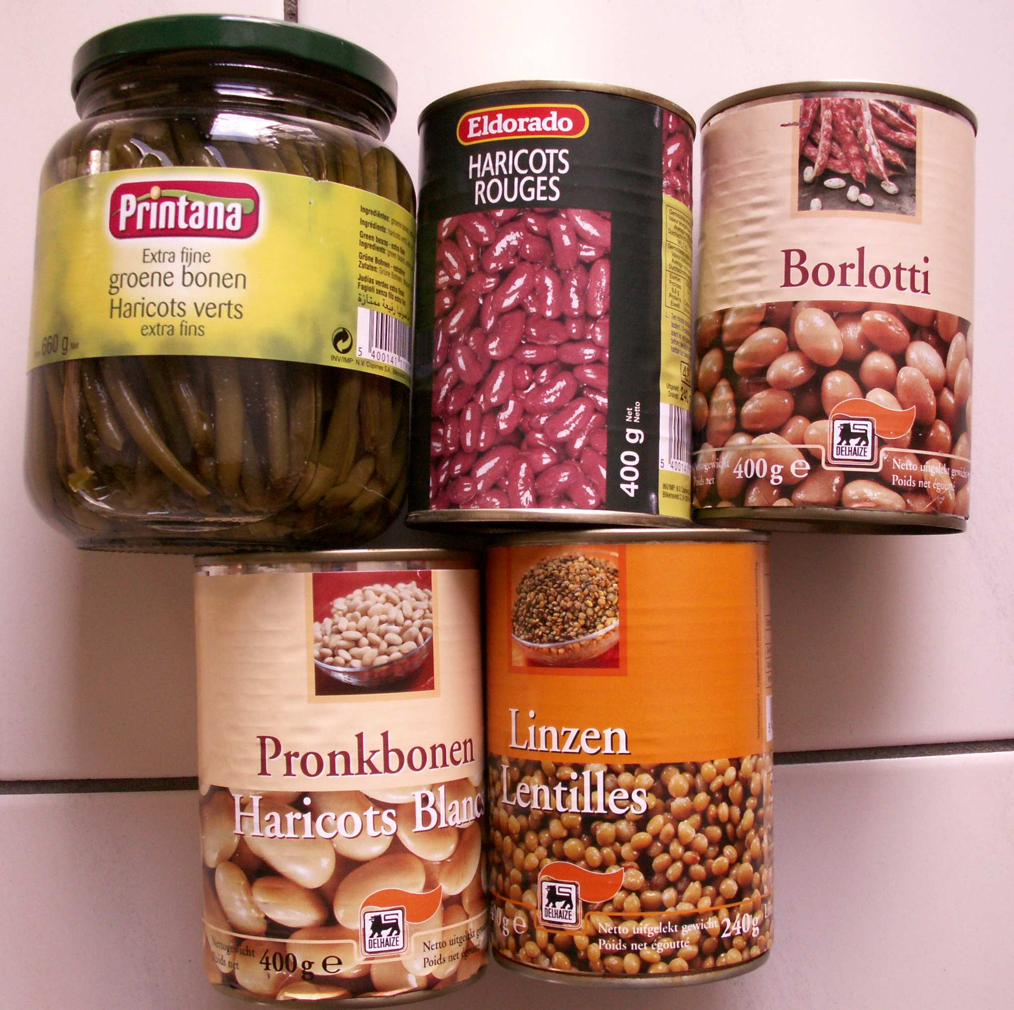 Cans of several types of beans